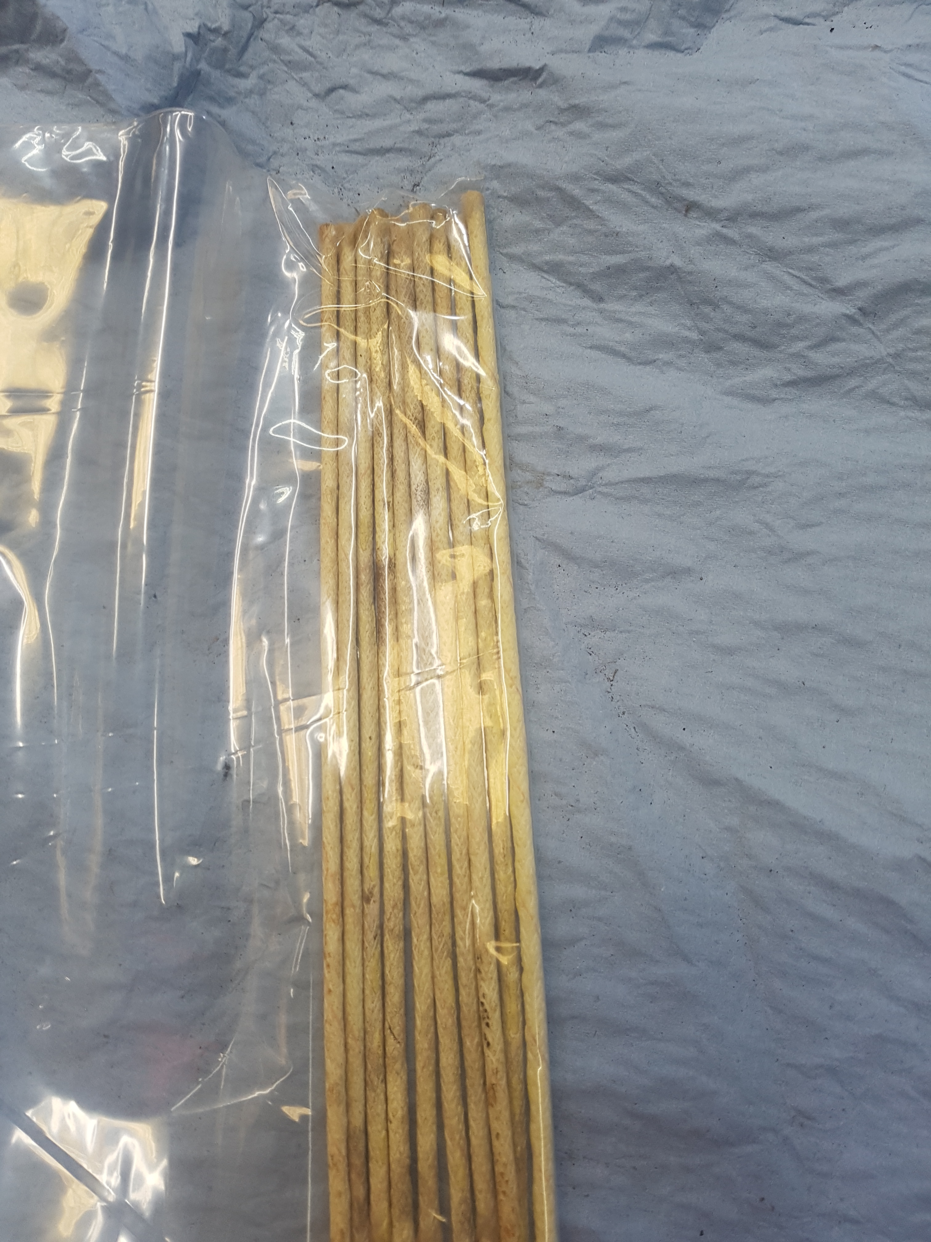 Sulphur sticks in packaging